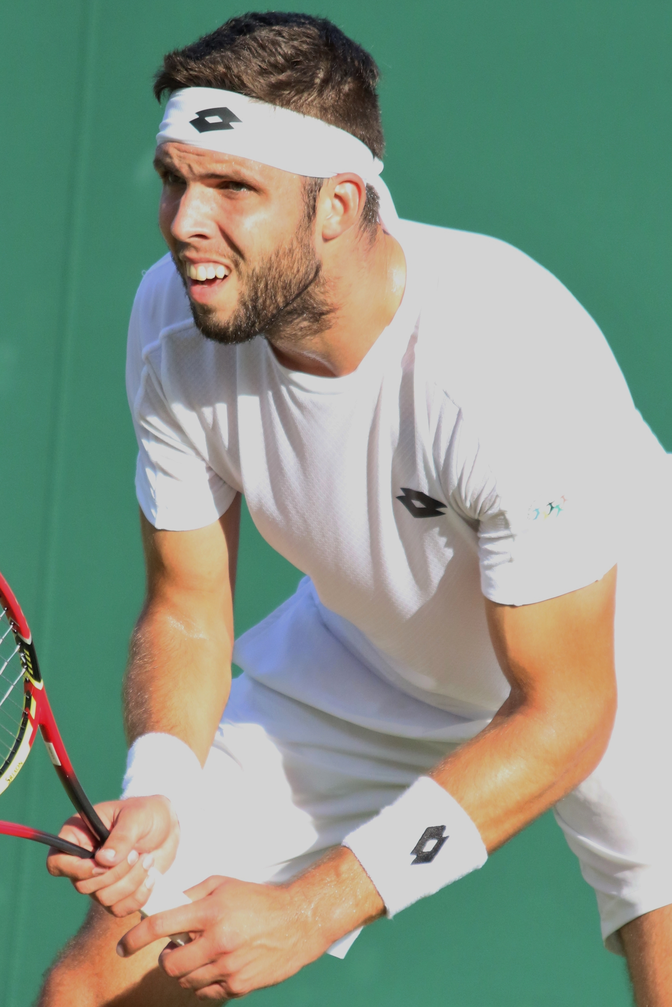 Vesely WM17 (5)